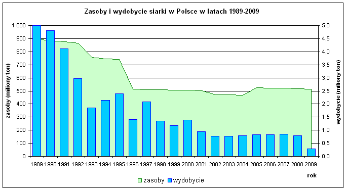 domestic production of Sulfur in Poland 1989-2009